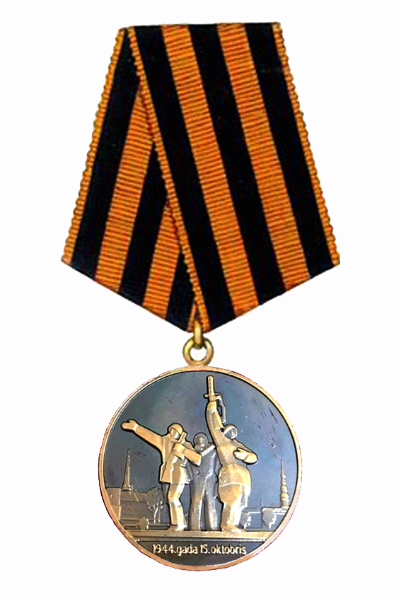 Medal. 75 years of the liberation of Riga from the Nazi invaders. 1944—2019. Latvia. Obverse of the medal.